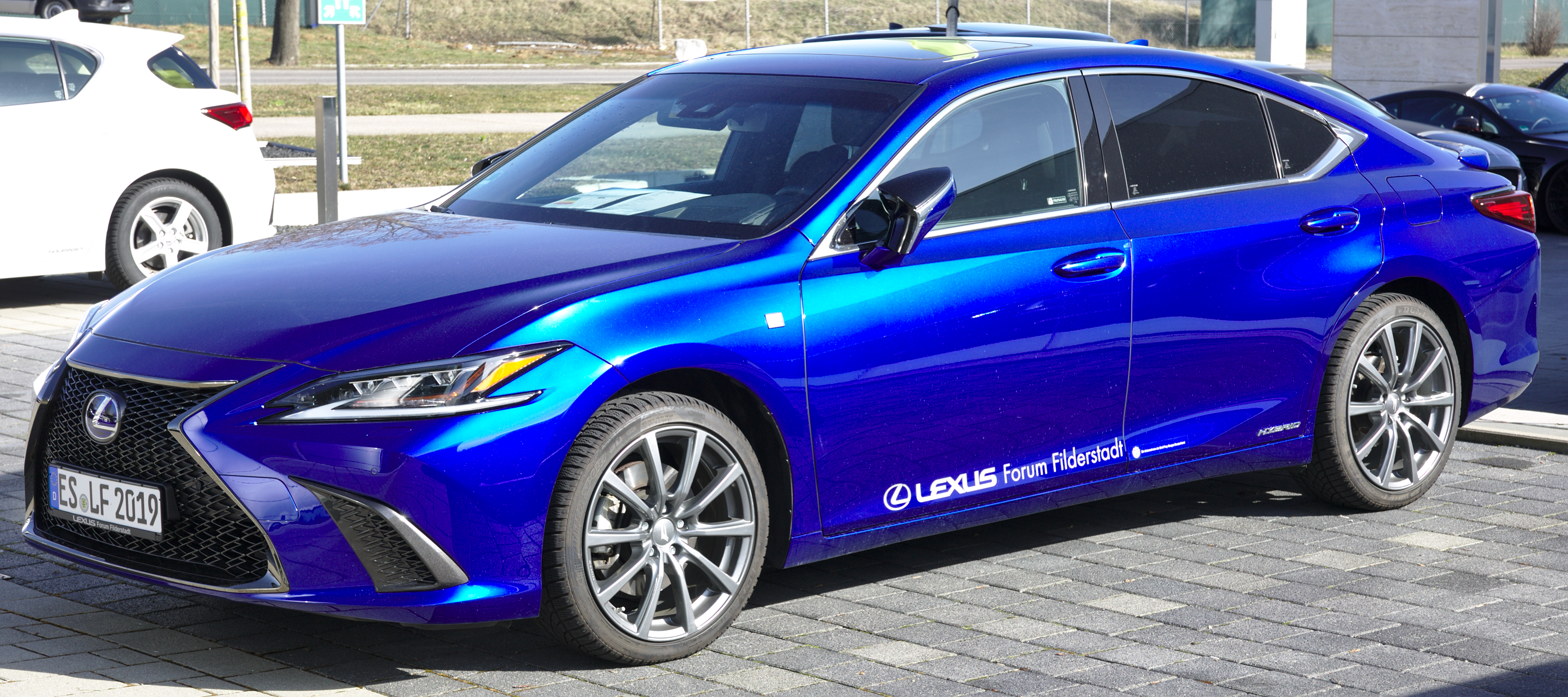 Lexus ES in Filderstadt